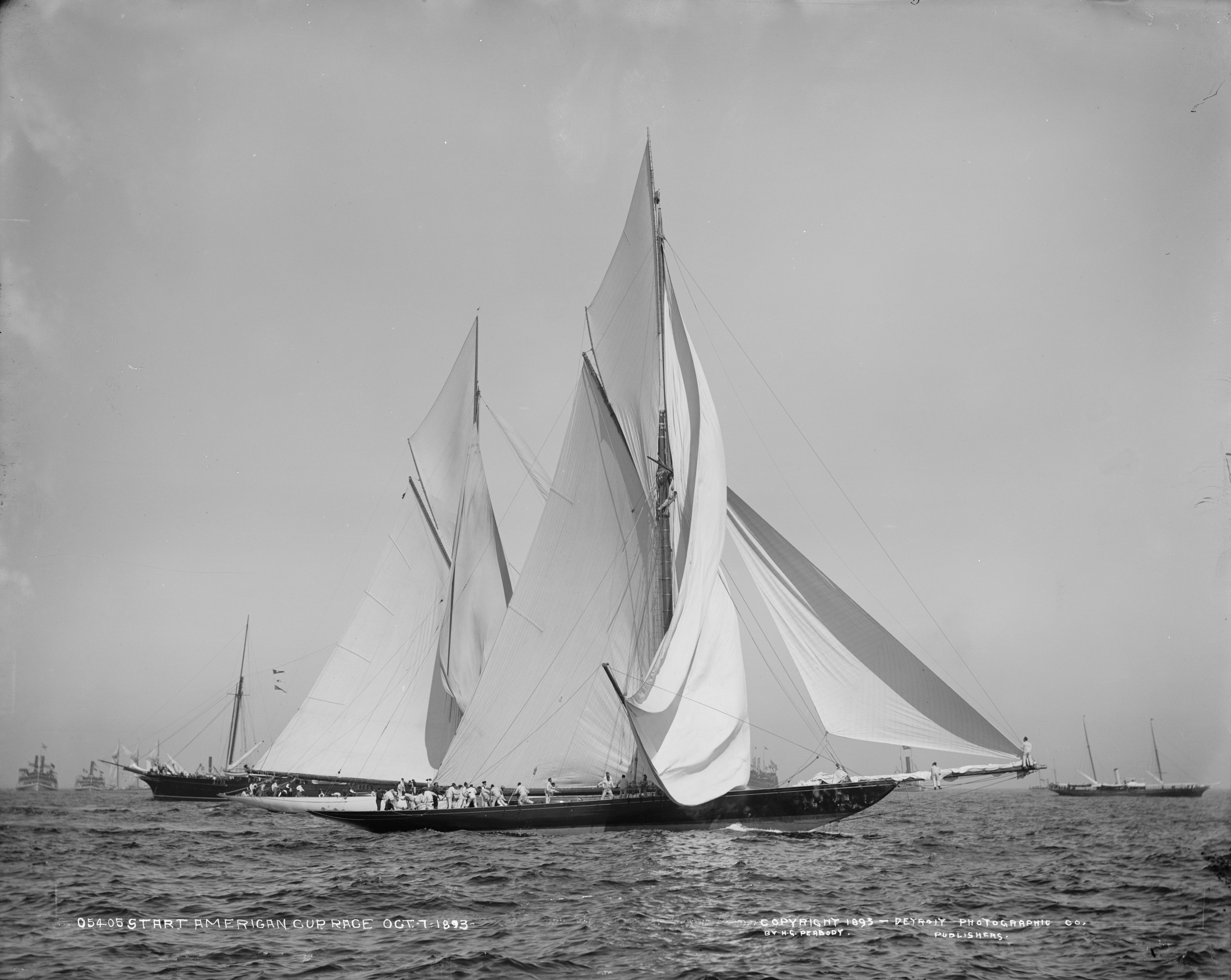 The British cutter Valkyrie II (George Lennox Watson design) and the yankee sloop Vigilant (Nathanael Greene Herreshoff design) at the start of their second race together in the 1893 America's Cup. The Valkyrie II lost every race. New York Times - How the race was won